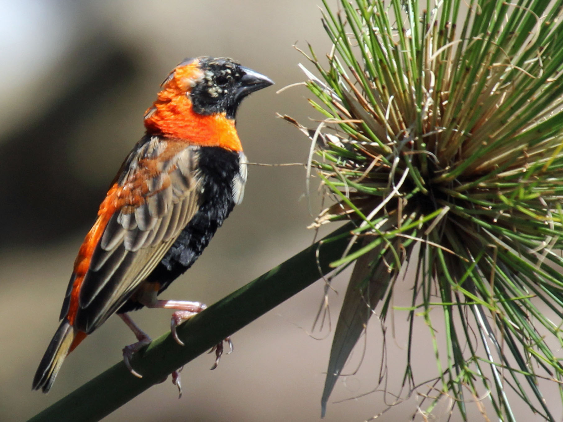 Black-winged Bishop (Euplectes hordeaceus) at Birds of Eden, South Africa